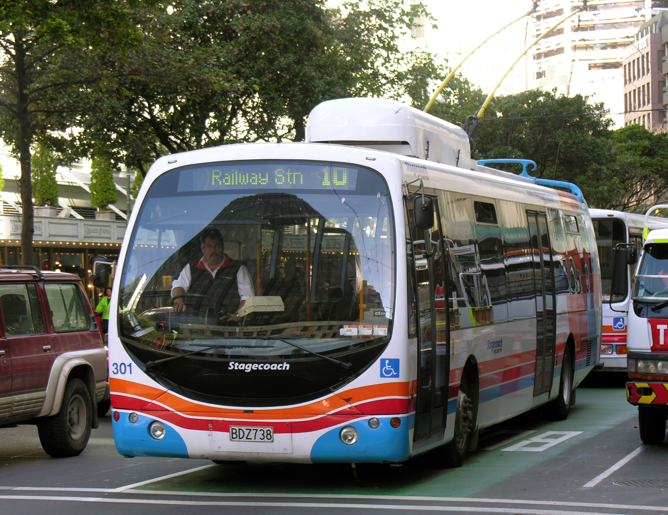 Wellington trolleybus No. 301, built in early 2003, was the first trolleybus ever built by DesignLine. It is shown in service on route 10. The driver in the picture is Mike Fee. No. 301 was delivered in the then-standard livery of Stagecoach Group, which was the operator of the Wellington trolleybus system at that time, but around 2007 it was repainted into the yellow livery of Go Wellington, which had taken over the operation of the transport system.